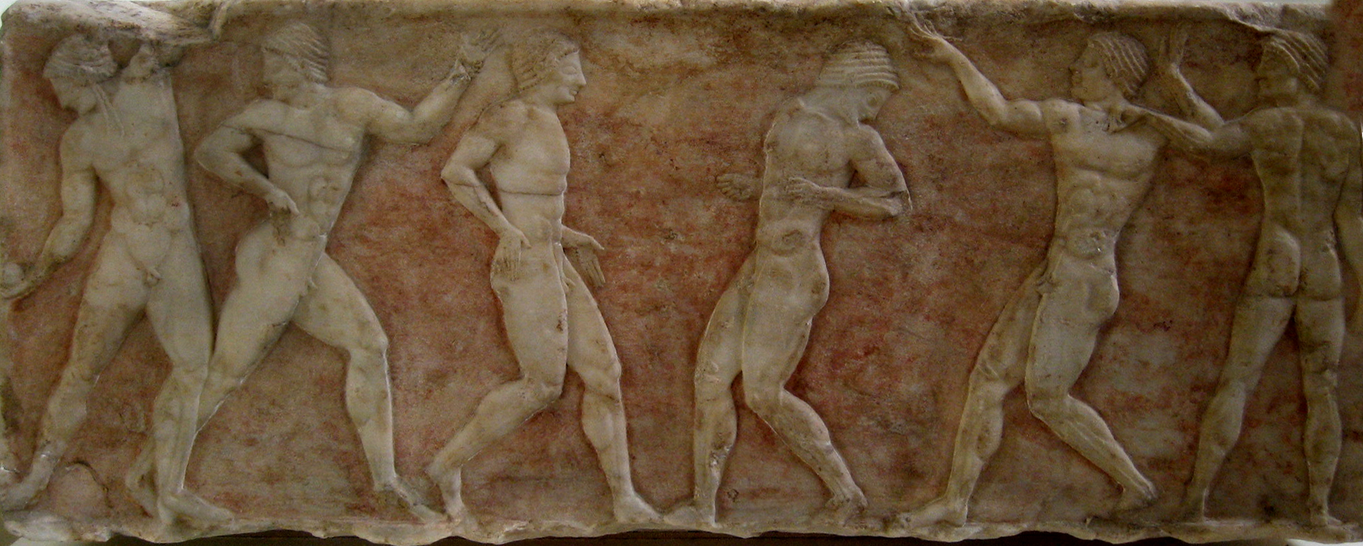 Base of a funerary kouros found in Athens, built into the Themistokleian wall. Three sides are decorated in relief: wrestlers are on the front side, an unspecified athletic game (known as "Ball Players") on the left side, a cat and dog fight scene on the right side.left side